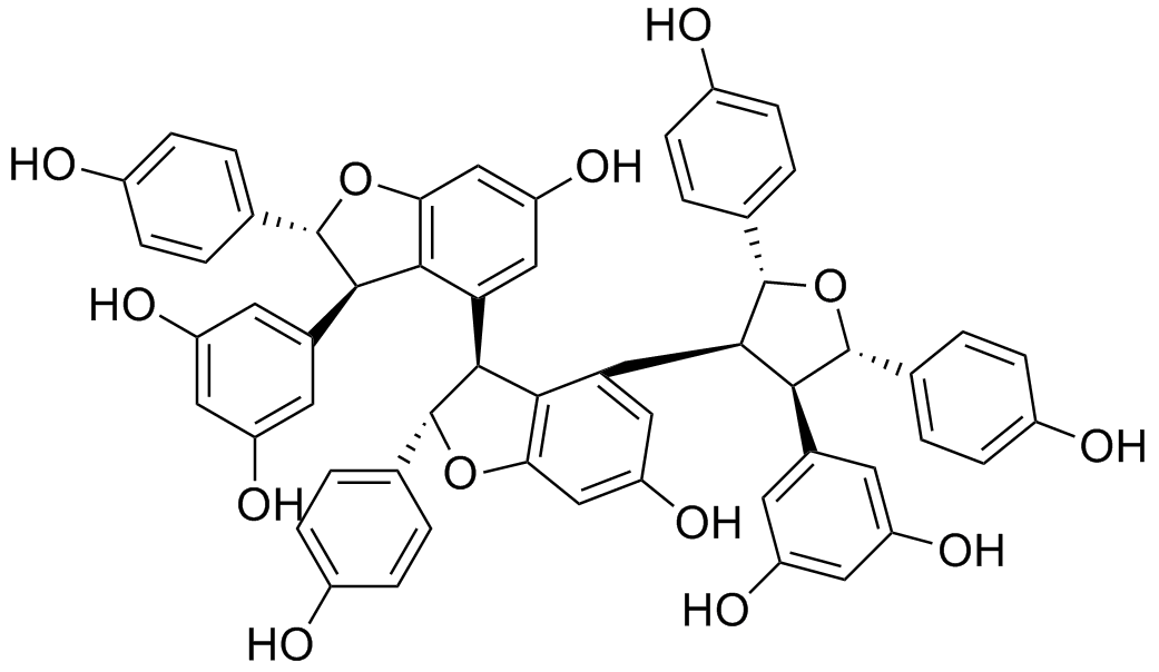 chemical structure of Carasinol B